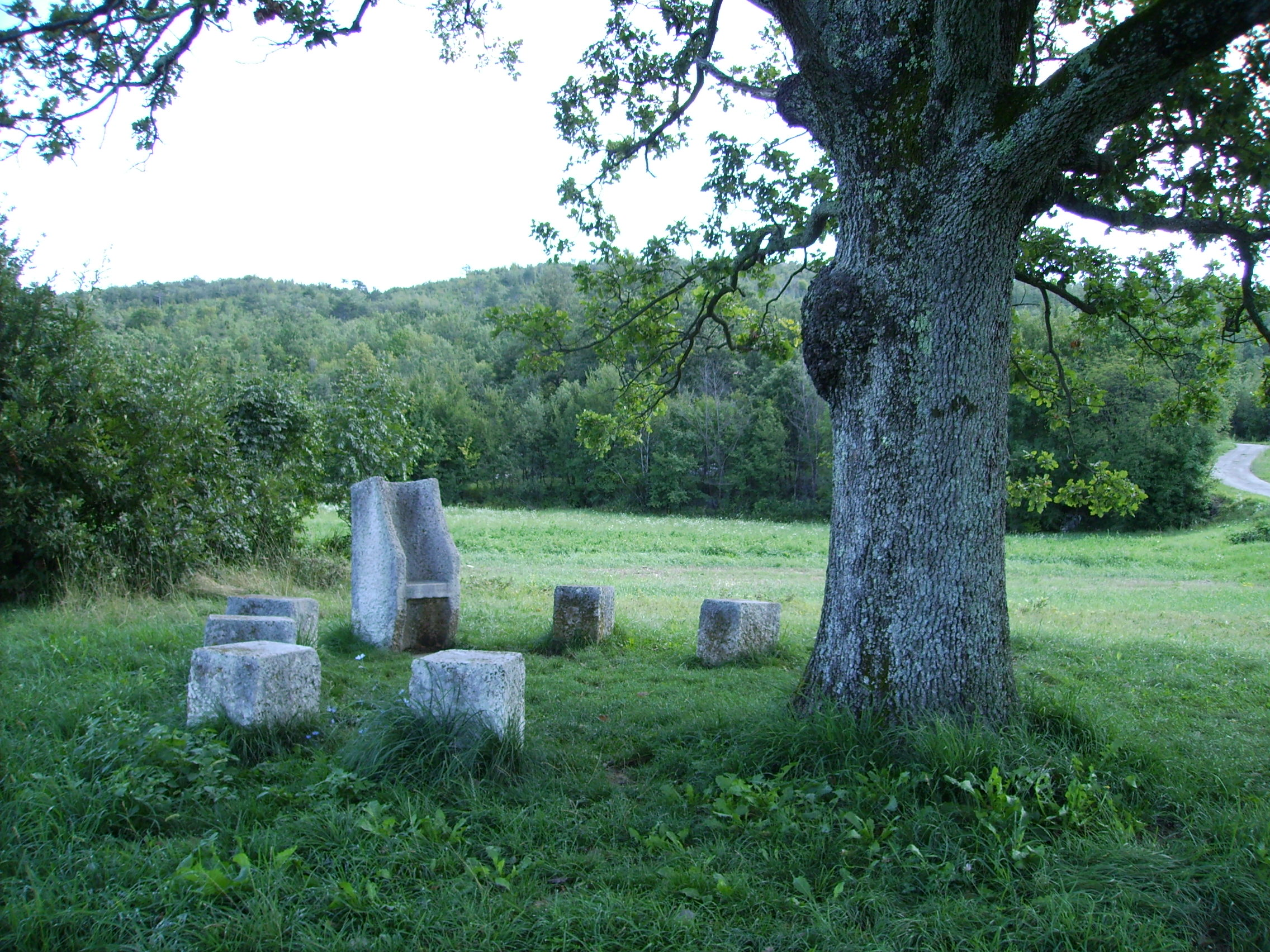 Seat of Clement of Ohrid at the Glagolitic Avenue near Hum, Croatia